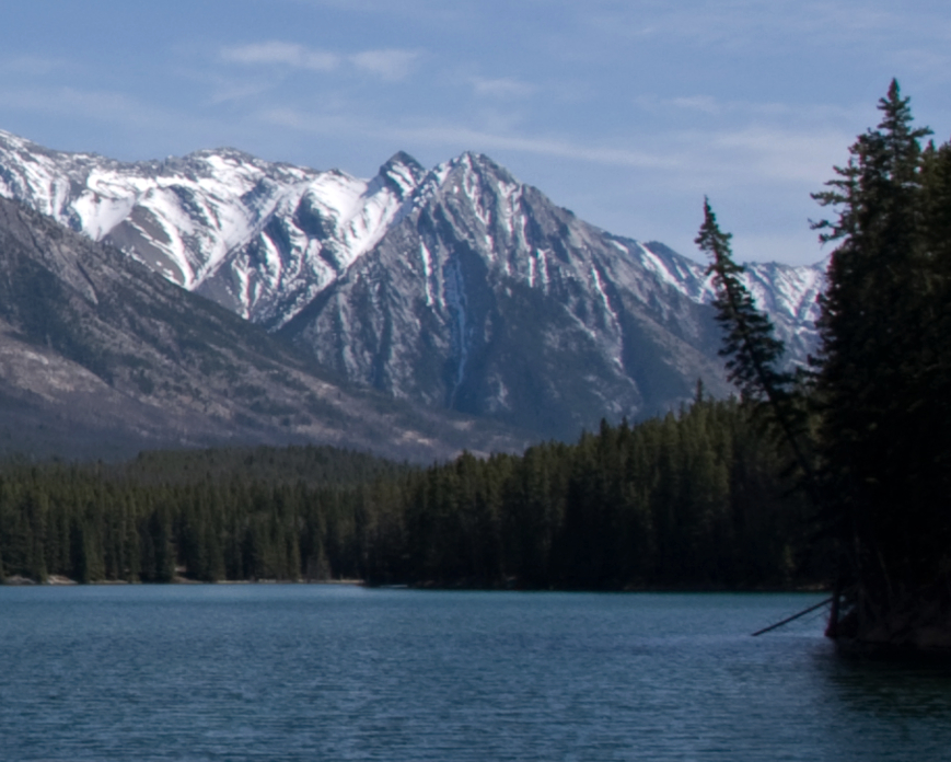 Lake Minnewanka was from original photo, but is likely Johnson Lake. Princess Margaret Mountain